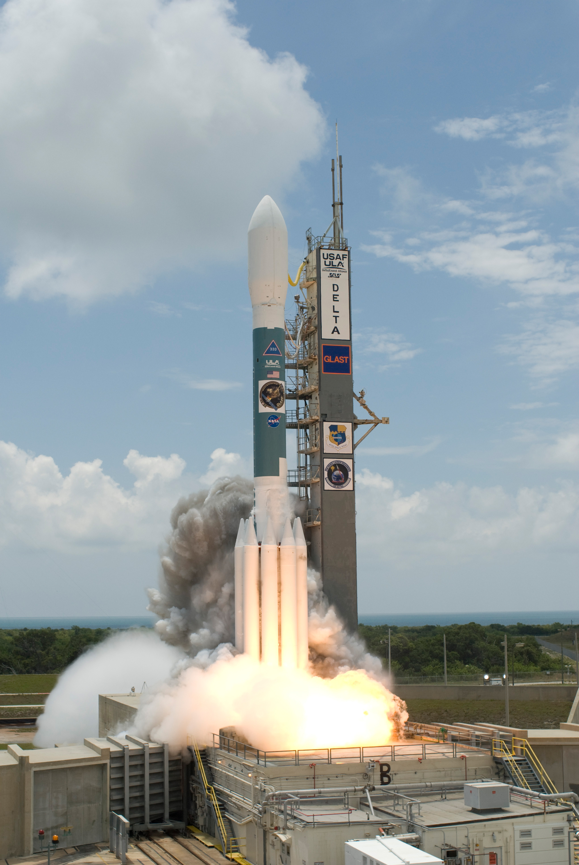 A Delta II Heavy just before liftoff with GLAST at 16:05 UTC on June 11, 2008 on Launch Pad 17B at the Cape Canaveral Air Force Station.